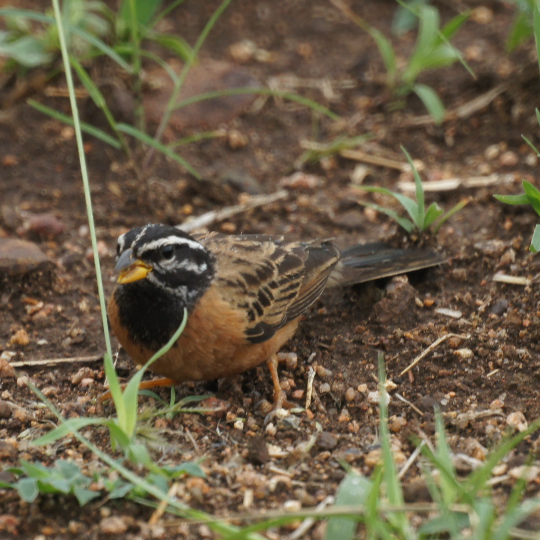 A Cinnamon-breasted Bunting in Limpopo, South Africa.